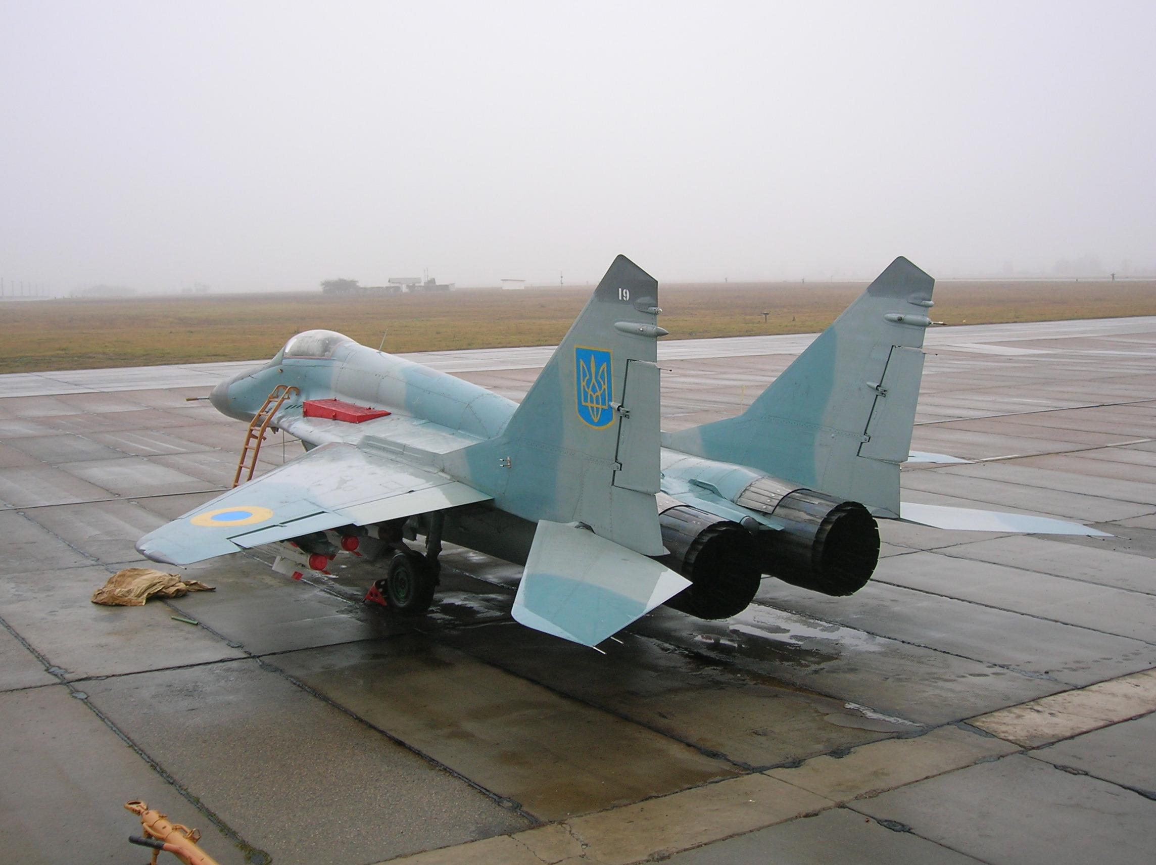 MiG-29 of the Ukrainian Air Force.